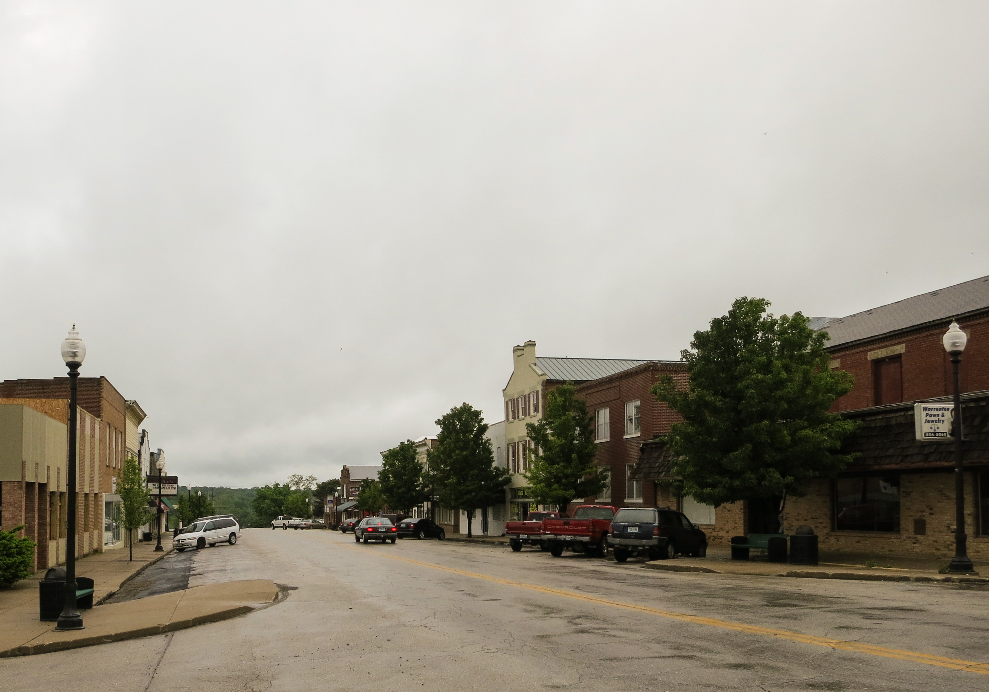 Building For Rent In Warrenton, Mo